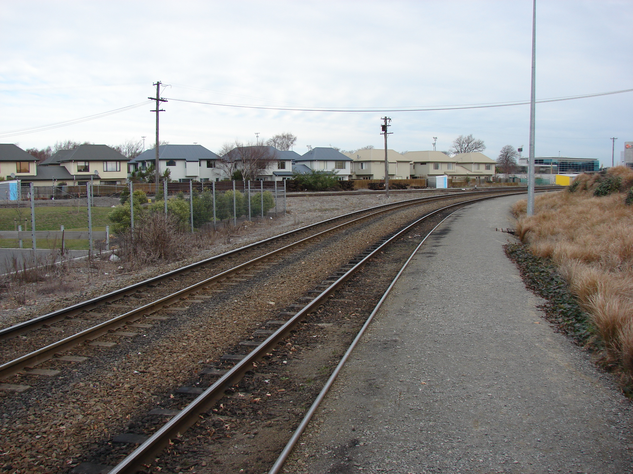 Addington Junction, where the Main North Line and Main South Line meet. Photographed by Matthew25187 on en:2007-07-28.